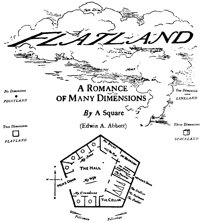 file extracted from File:Flatland cover.jpg, drastic conversion to Black and white for transcription